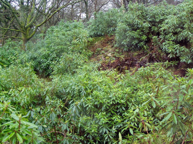 Inside Leckie Broch